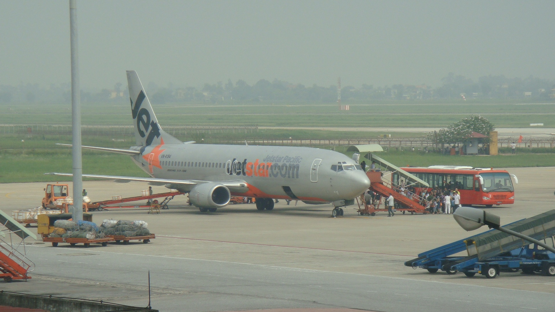 Jetstar Pacific Airlines Boeing 737-400 at Noi Bai International Airport, Hanoi, Vietnam.